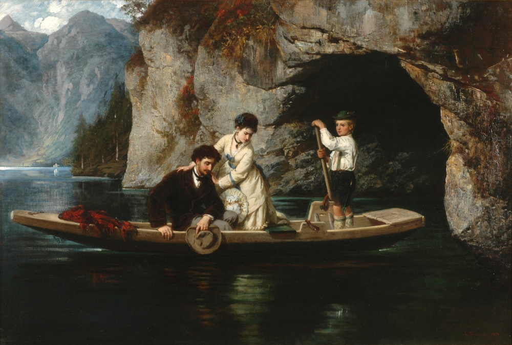 Item Overview from recent auction